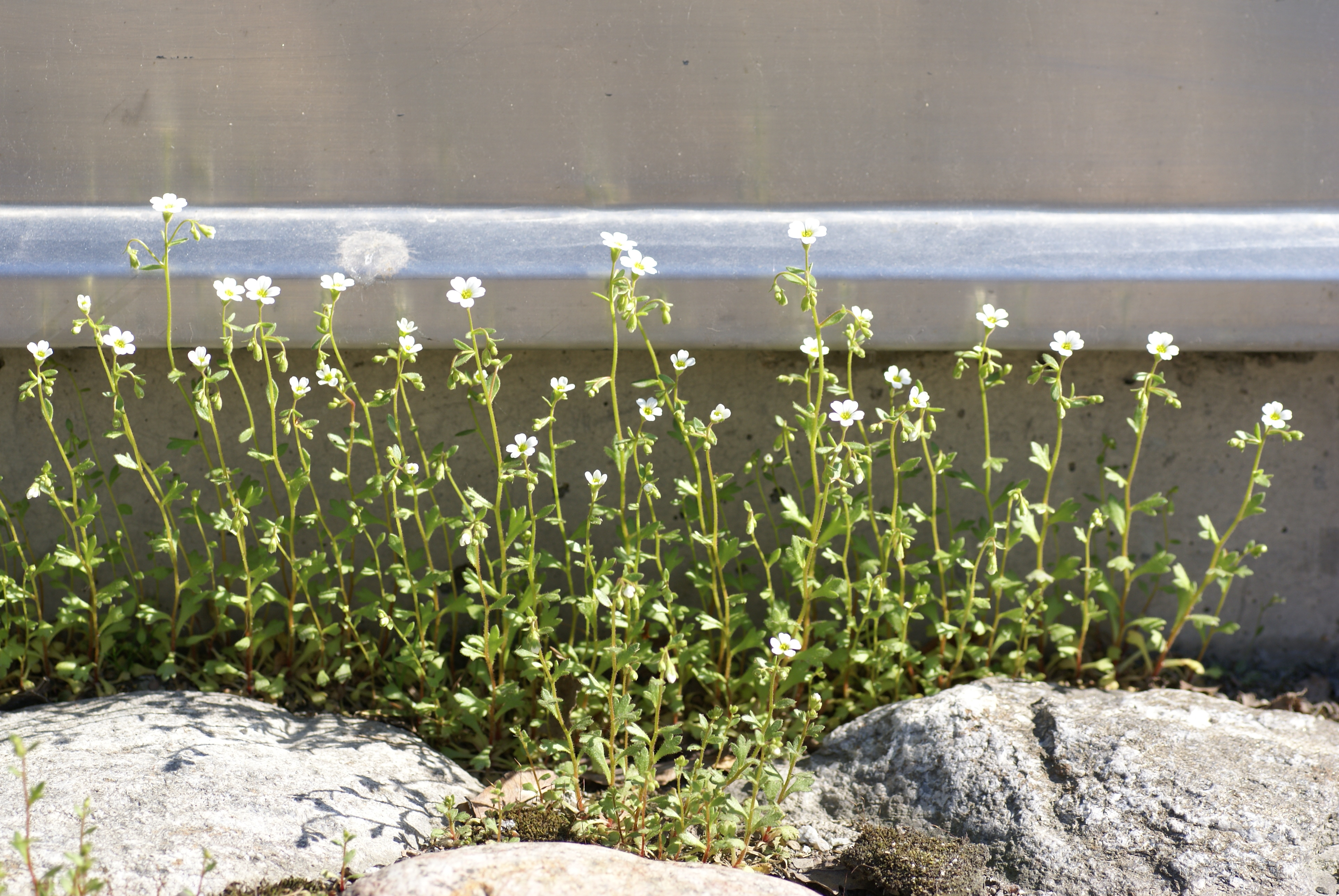 Plant species Saxifraga osloënsis at entrance to Swedish television in Stockholm